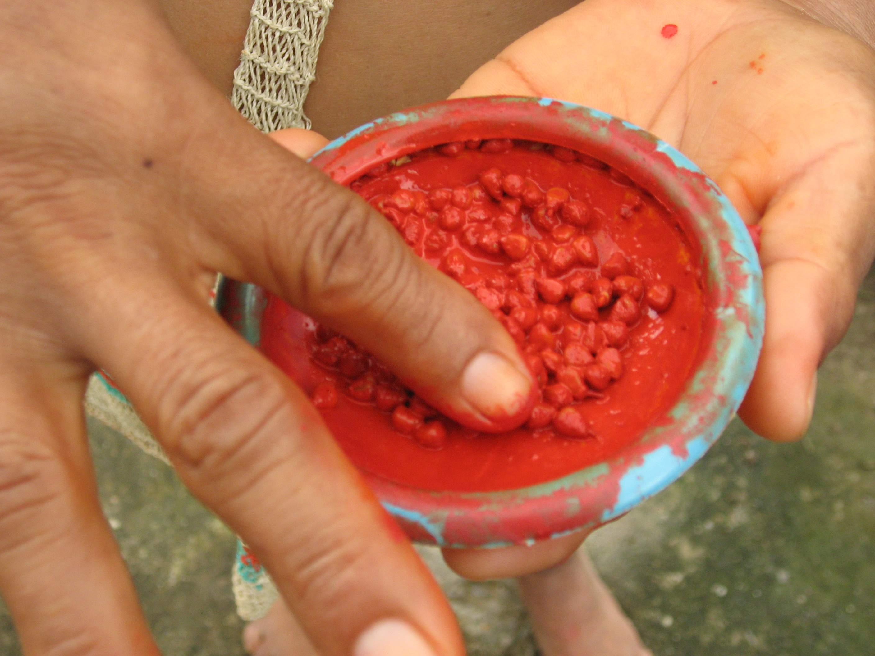 Red face paint used by Huaoranis in Ecuador.